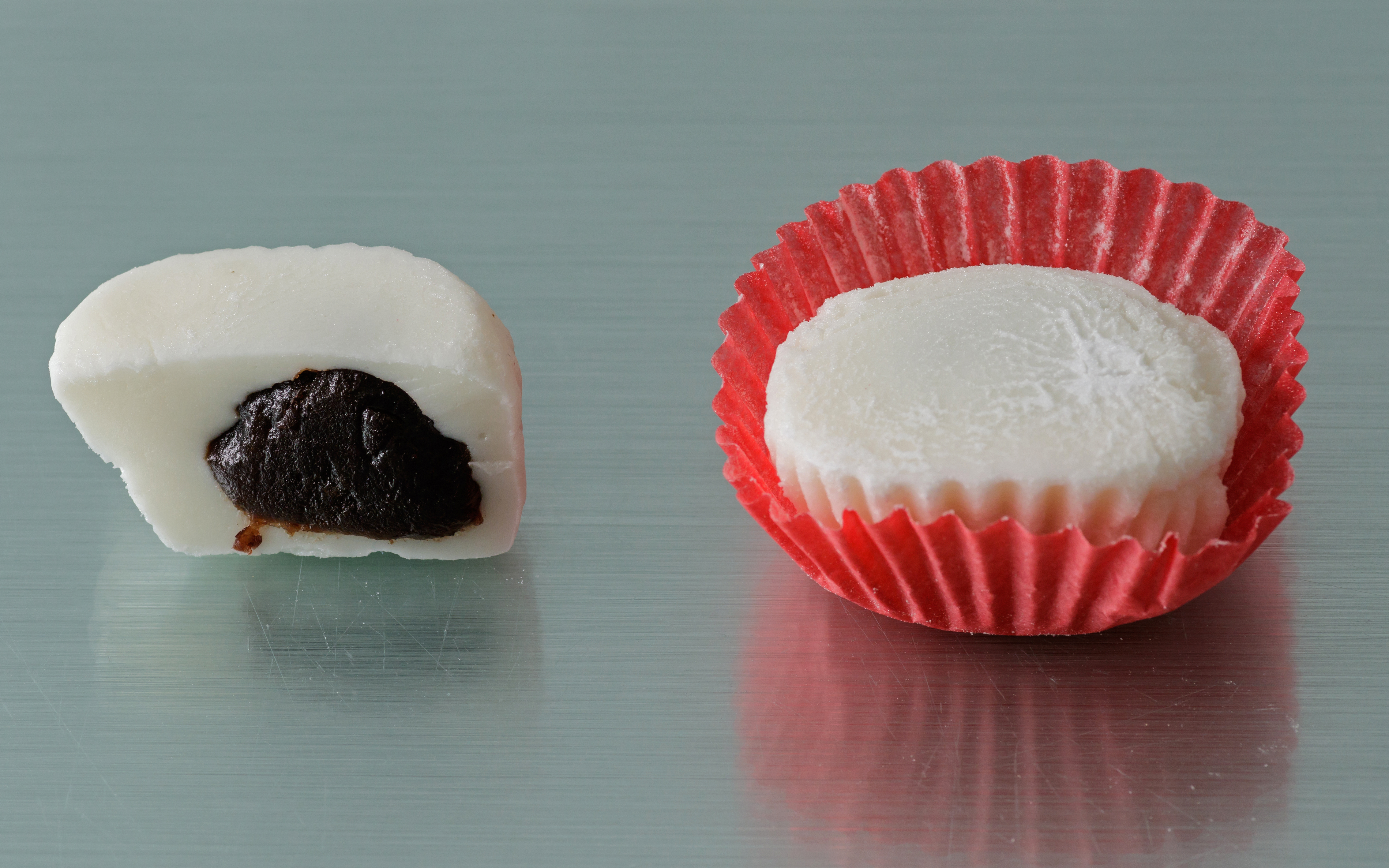 Mochi of Japanese cuisine, with Red bean paste filling